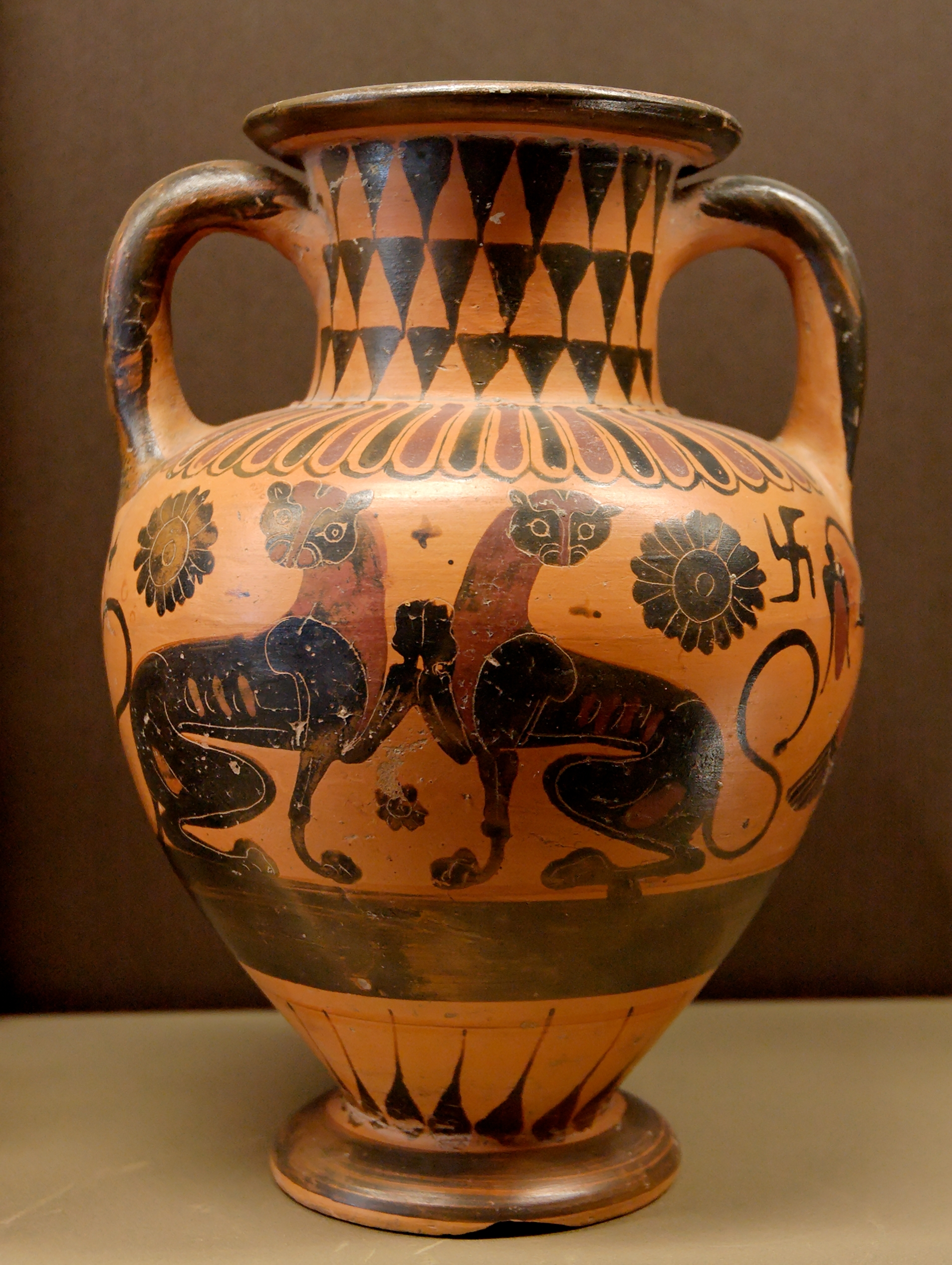 Animals. Side B from a black-figure neck-amphora, ca. 560–540 BC. From Reggio di Calabria, former Rhegion.